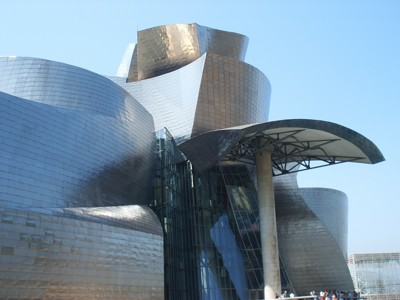 Guggenheim Museum Bilbao, Bilbao, Basque Country, Spain